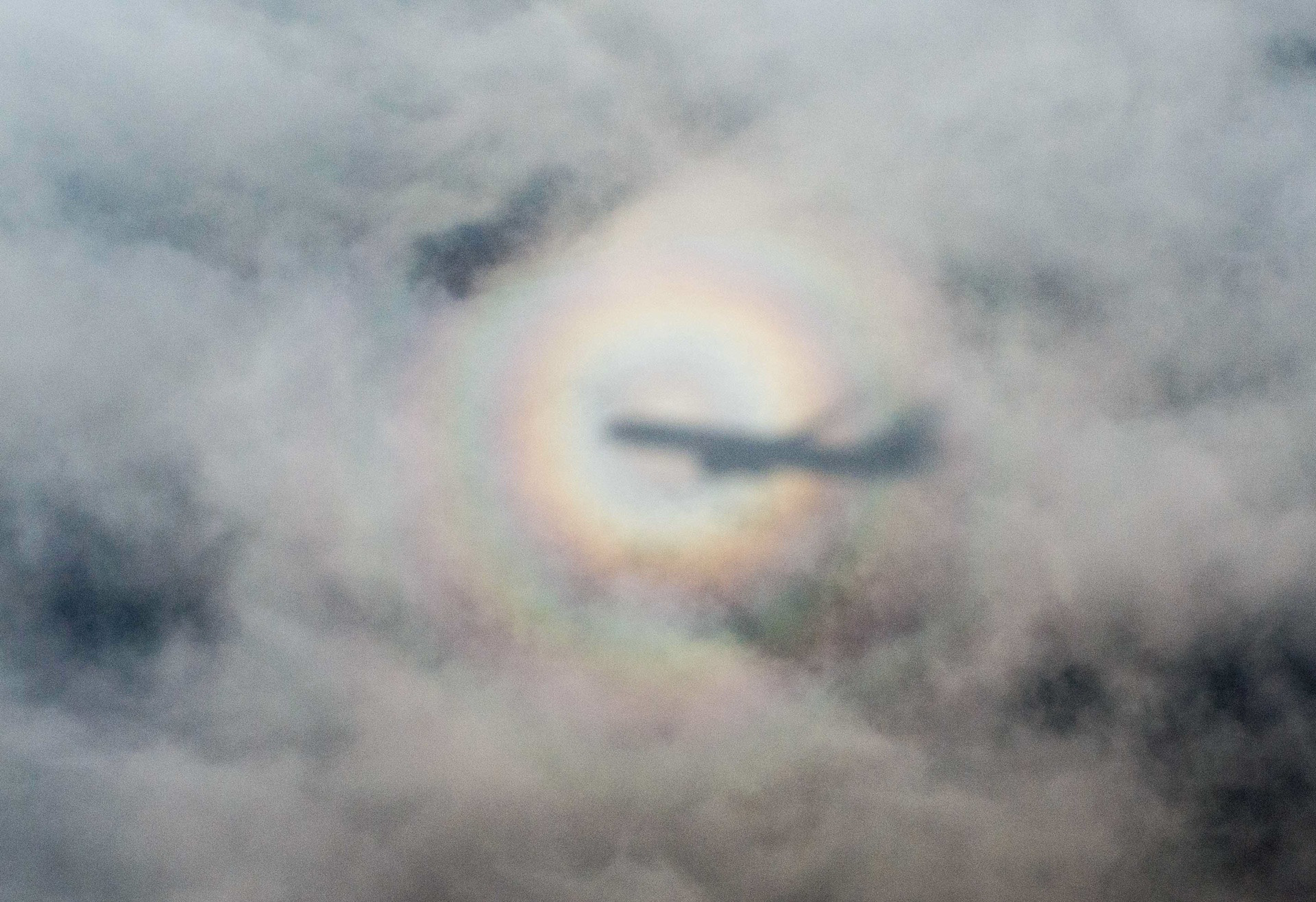 Pilot's Glory phenomenon, as seen from a Boeing 737 window after takeoff from Bonaire International Airport, please credit and link to